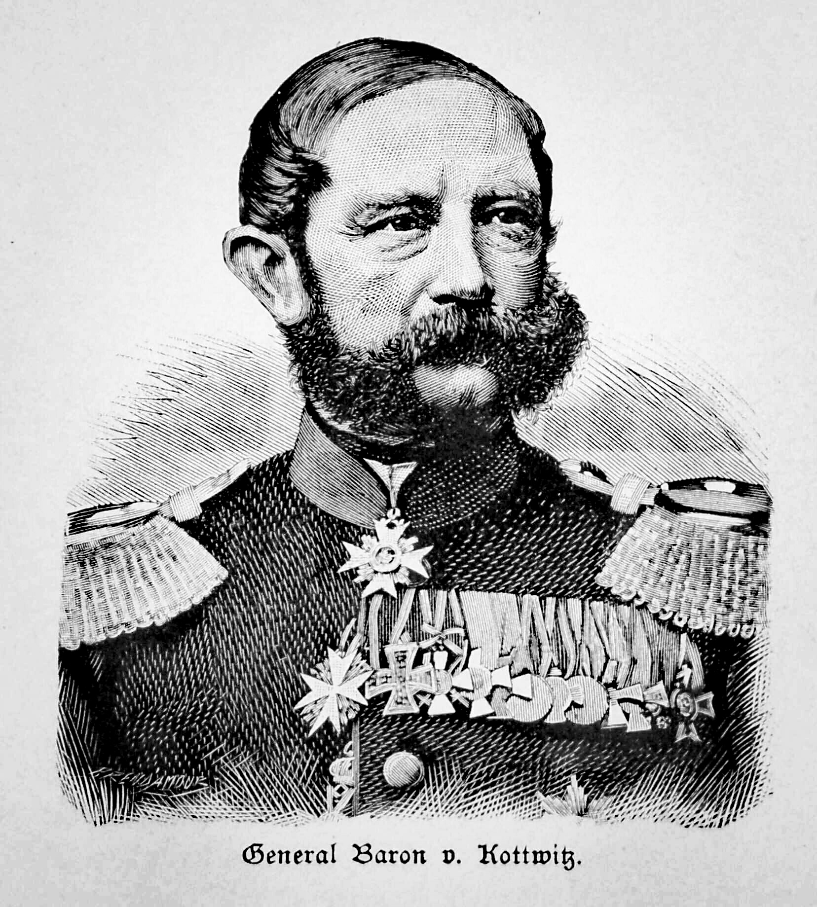 baron von Kottwitz